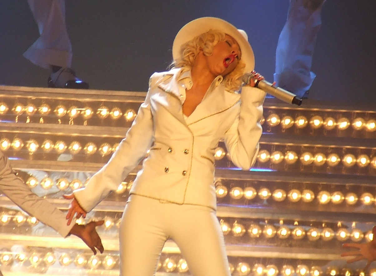 Christina Aguilera sings "Ain´t No other Man" during the "Back to Basics Tour"